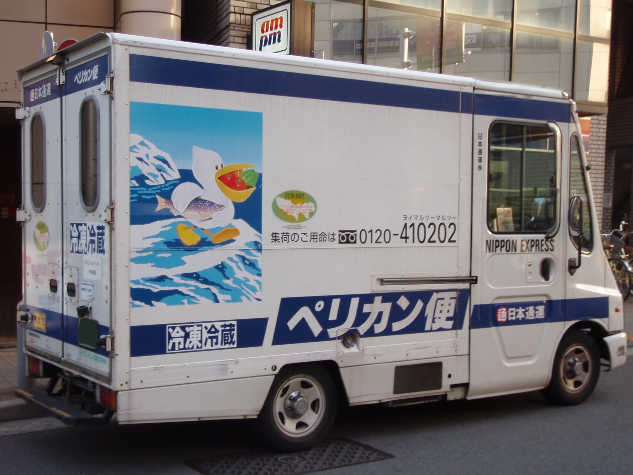 Nippon Tsuuun Isuzu Begin